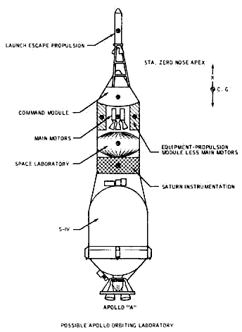 Apollo A scheme